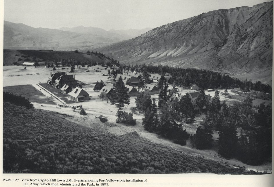 Fort Yellowstone in 1895 as viewed from Capitol Hill, Yellowstone National Park, WY